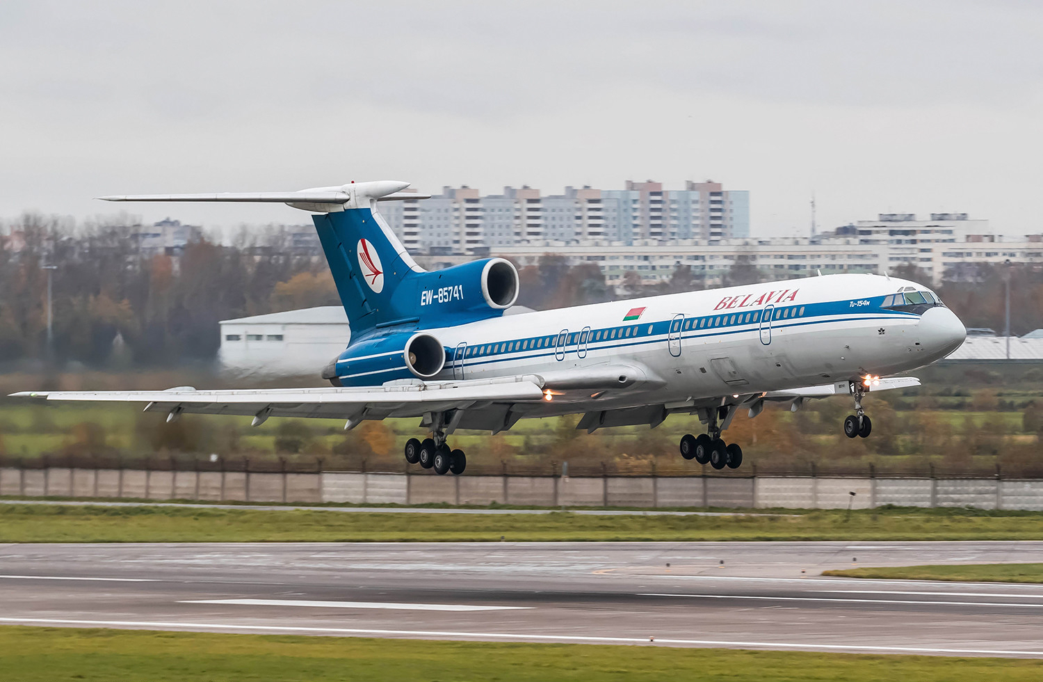 Belavia Tupolev Tu-154M (EW-85741) at Pulkovo Airport